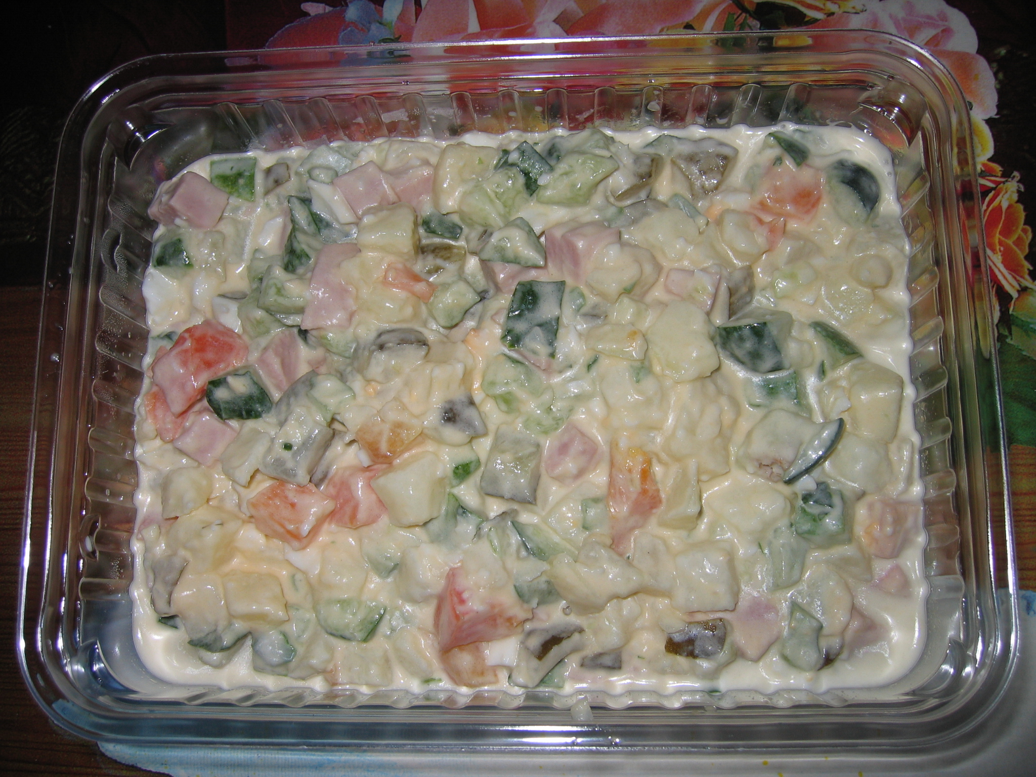 Russian Olivier salad